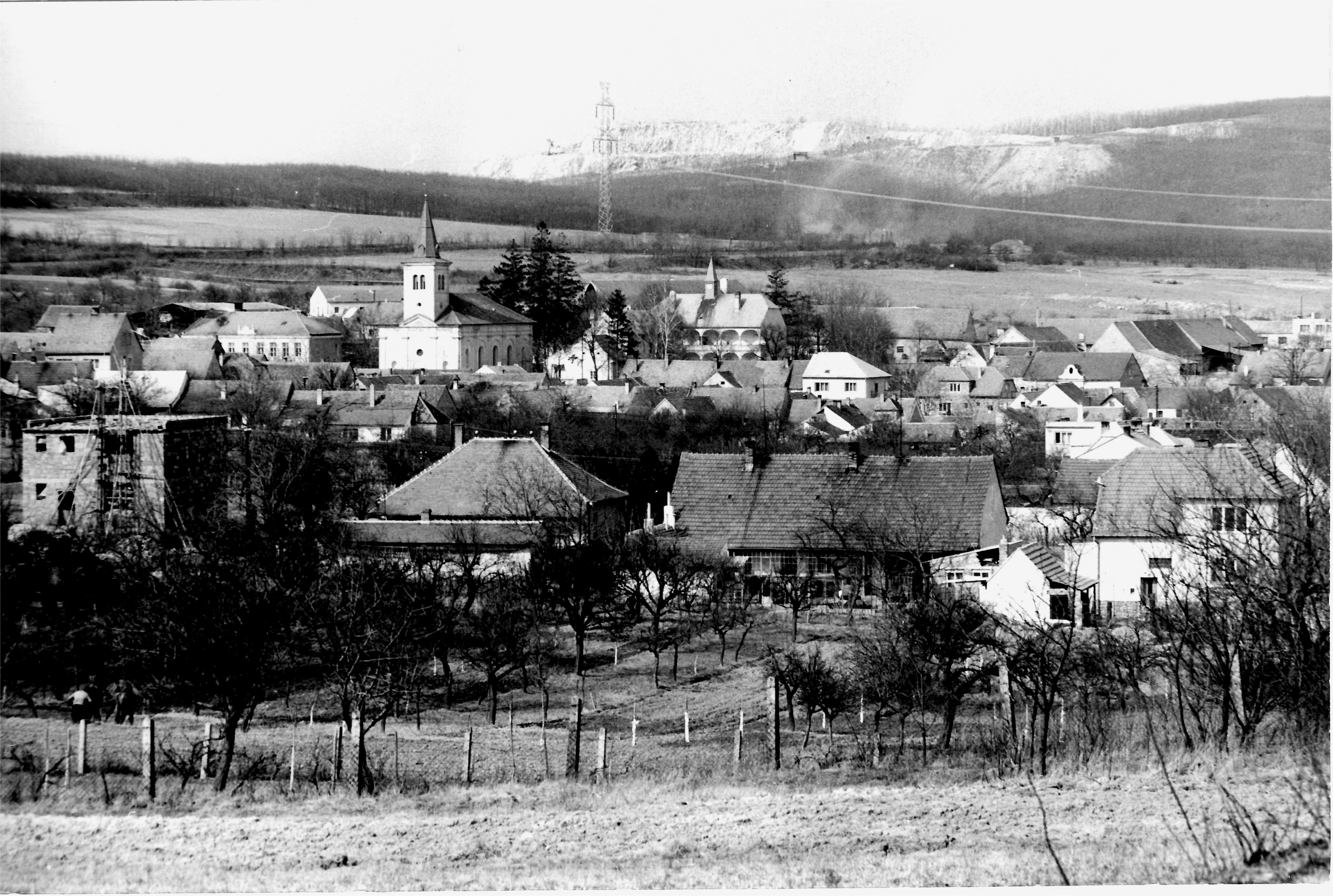 View to the hill Leskoun (Misskogl)